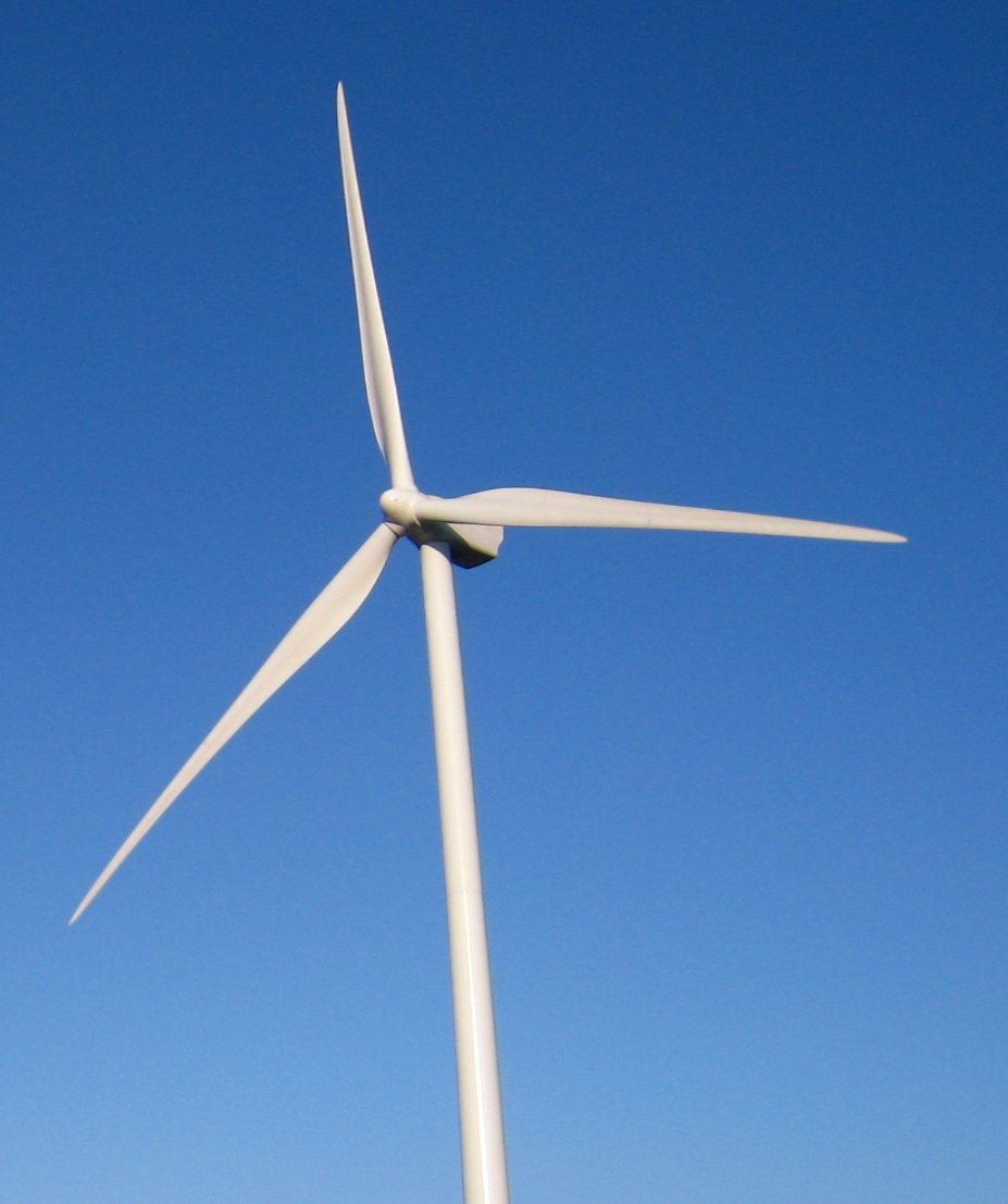 Vestas V90 turbine hub